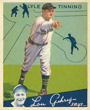 1934 Goudey baseball card of Bud Tinning of the Chicago Cubs #71. PD-not-renewed.